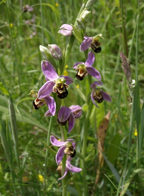 Bee orchids, Aller Brook Local Nature Reserve. A host of blooms on specimens of 833412, not far northeast of the footbridge that spans the Aller Brook and the A380.